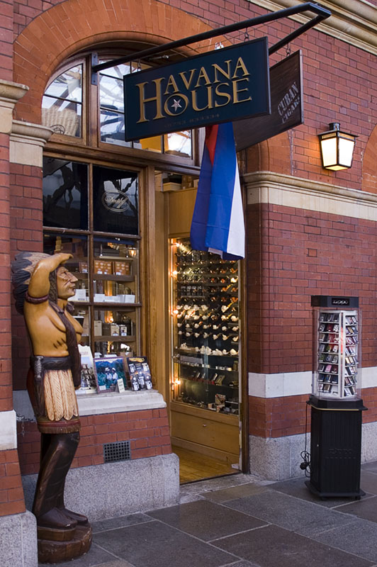 Cigar store Indian 2006 outside the Windsor, UK cigar & tobacco shop